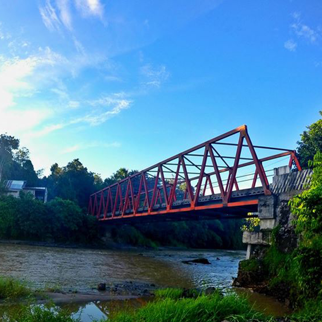 Bailey Bridge, a 55-meter modular bridge crossing the Sibuguey River in Bayog, Zamboanga del Sur